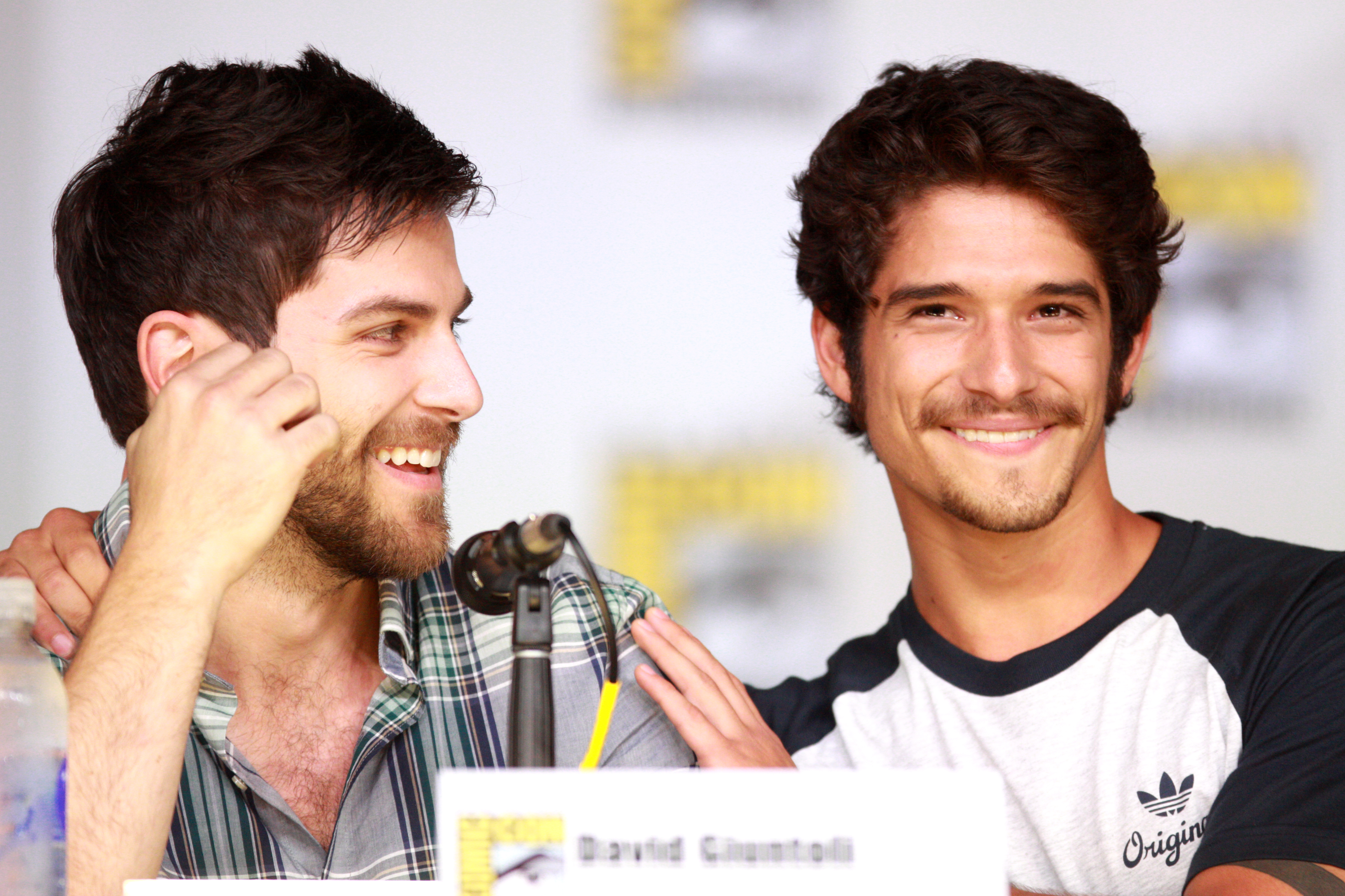 David Giuntoli and Tyler Posey speaking at the 2013 San Diego Comic Con International, for Entertainment Weekly's "Brave New Warriors" panel, at the San Diego Convention Center in San Diego, California.